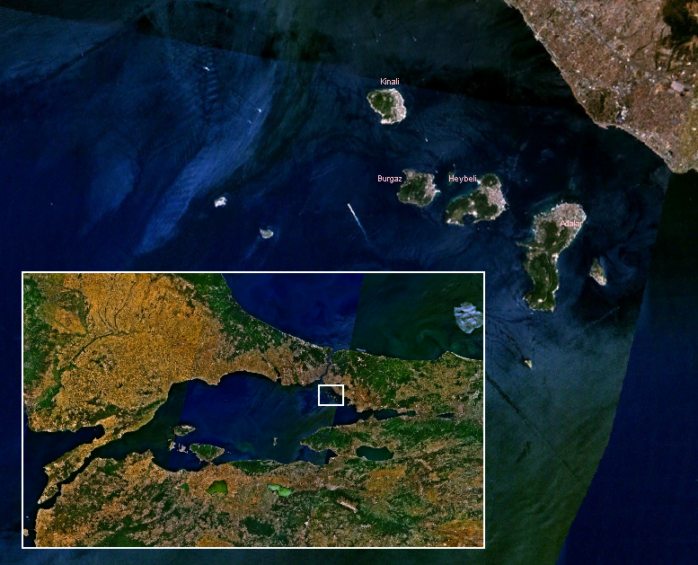 Satellite map of Princes' Islands, with a wider map of Sea of Marmara